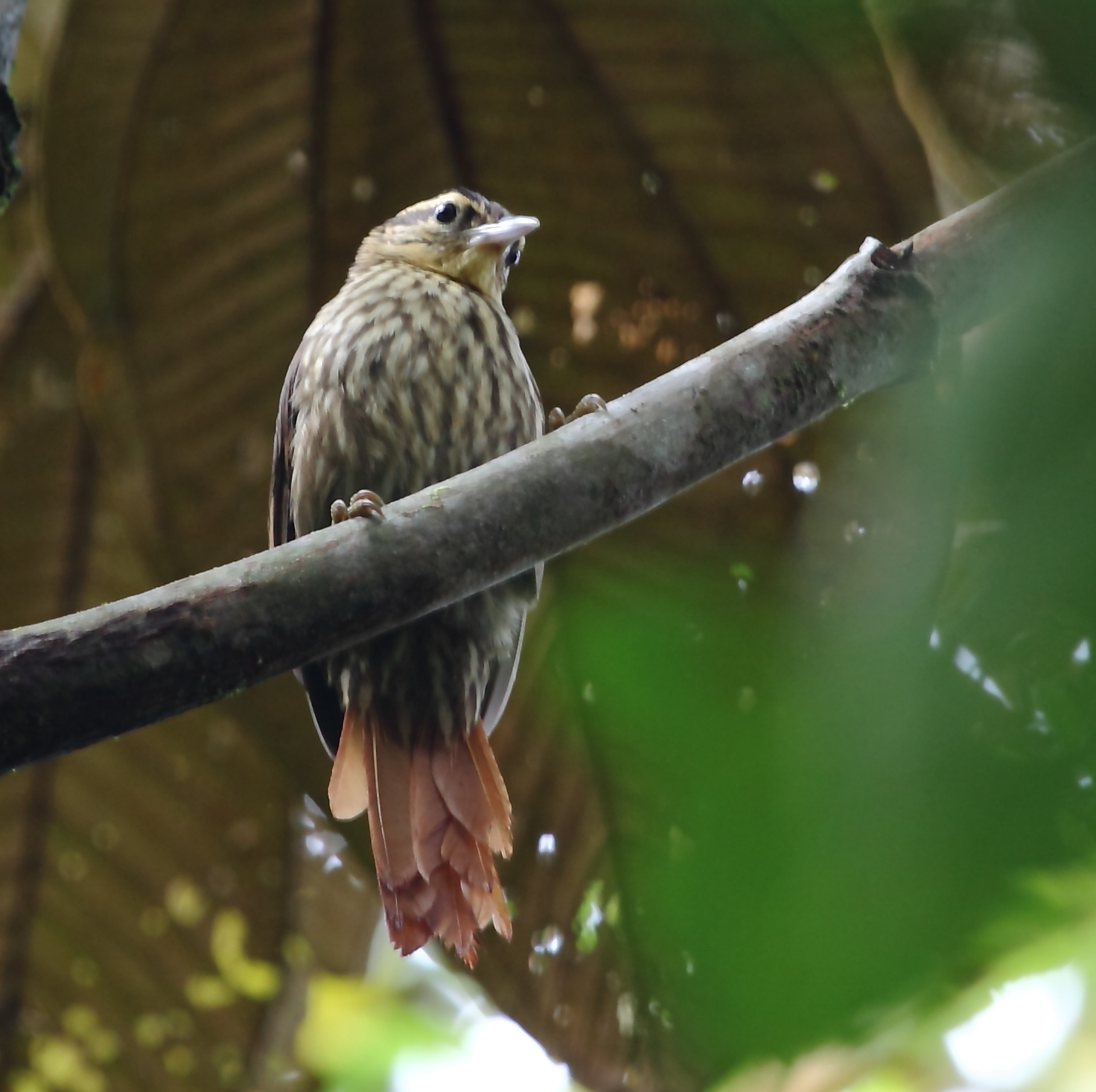 Pale-browed Treehunter at São Luiz do Paraitinga - SP - Brazil